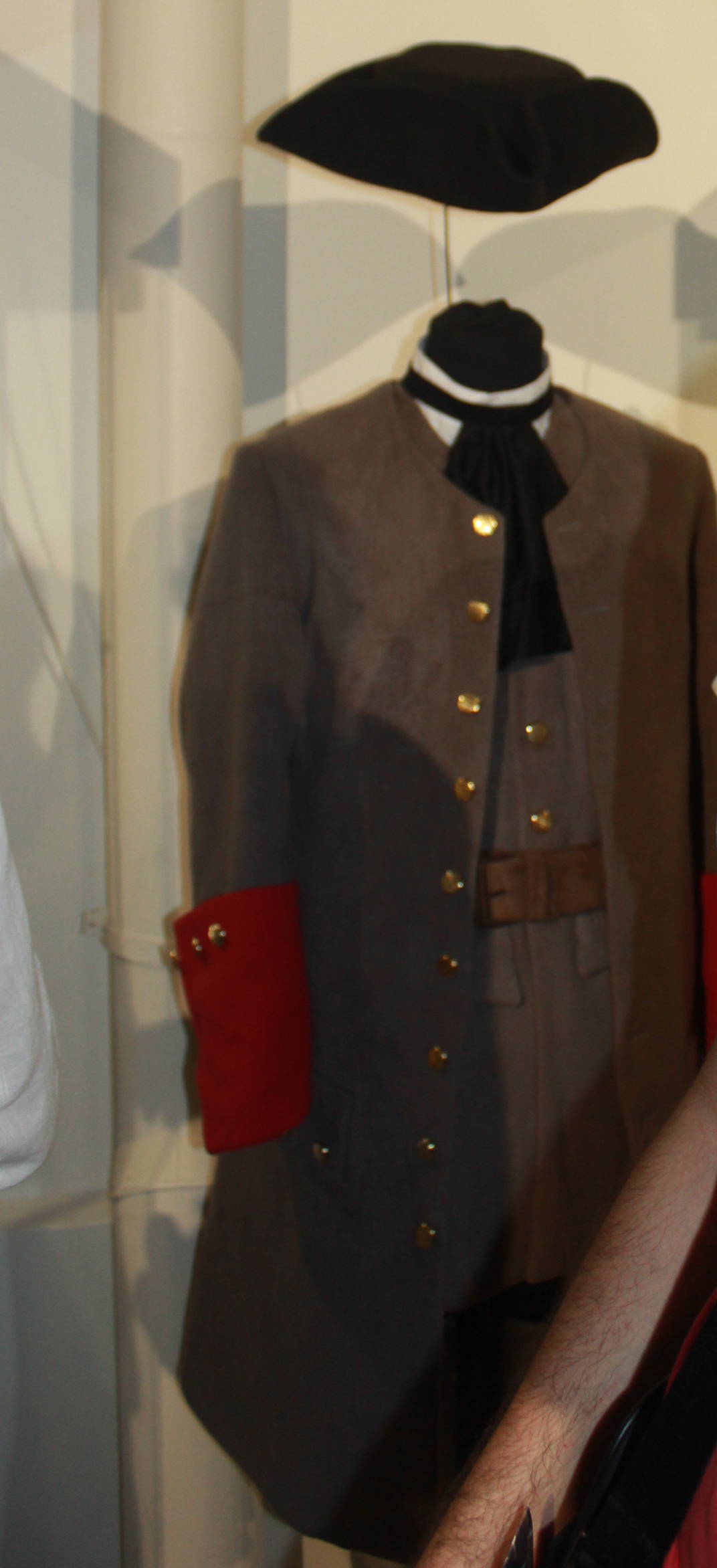 Uniform of Imperial Austrian army under command of Princ Eugen of Savoy in year 1716